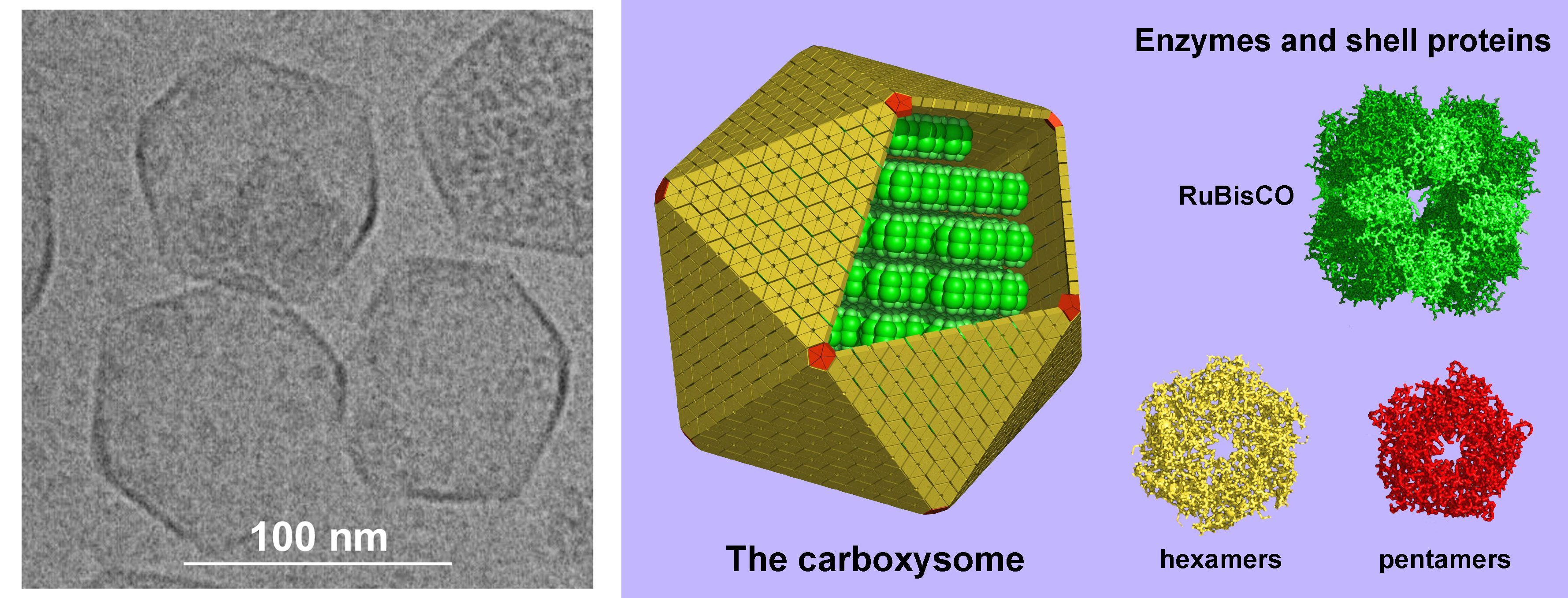 Legend: (left) Purified carboxysomes (material courtesy of S. Heinhorst and G. Cannon) as visualized by cryo-electron microscopy (courtesy of M.J. Yeager and K.A. Dryden, University of Virginia). (right) Models for the structure of the carboxysome. Current data suggest that the shell is composed of several hundred hexameric protein building blocks and 12 pentameric building blocks. The three-dimensional atomic structures of the shell proteins have been determined by X-ray crystallography. RuBisCO, the main interior enzyme is shown packed inside in a regular arrangement for simplicity, though the actual organization of the enzymes is not understood yet. The other key enzyme, carbonic anhydrase, which is present in lesser amounts, is not illustrated (image by T.O. Yeates, UCLA).